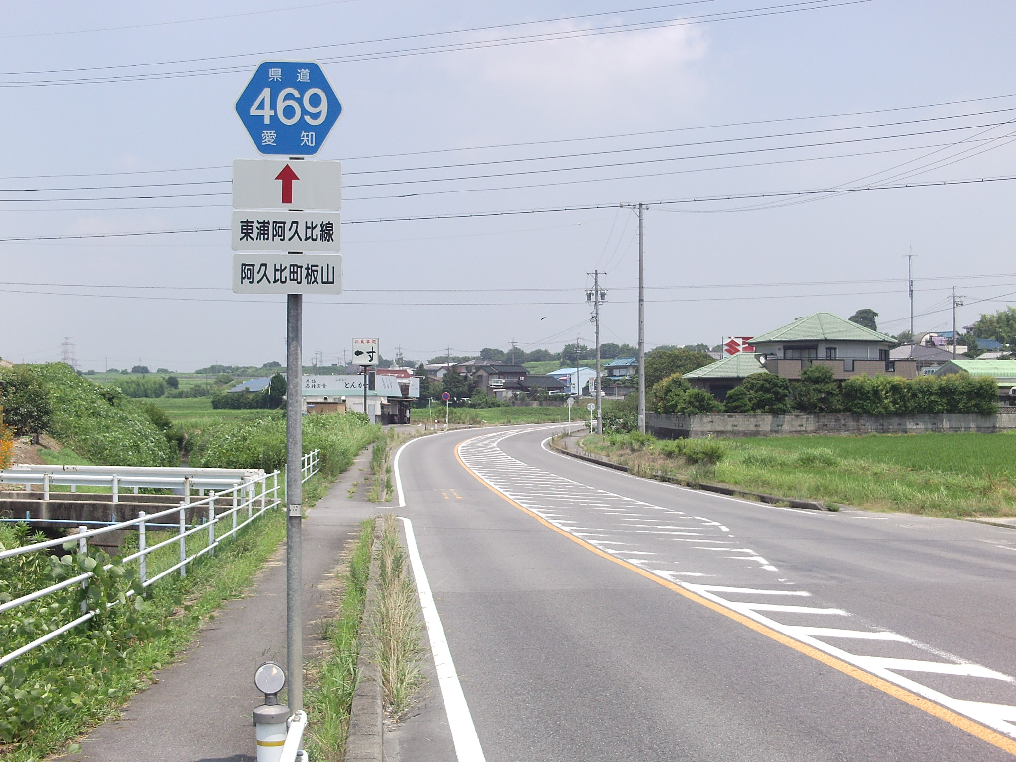 Aichi prefectural road No.469 in Itayama, Agui-cho, Chita-gun, Aichi.